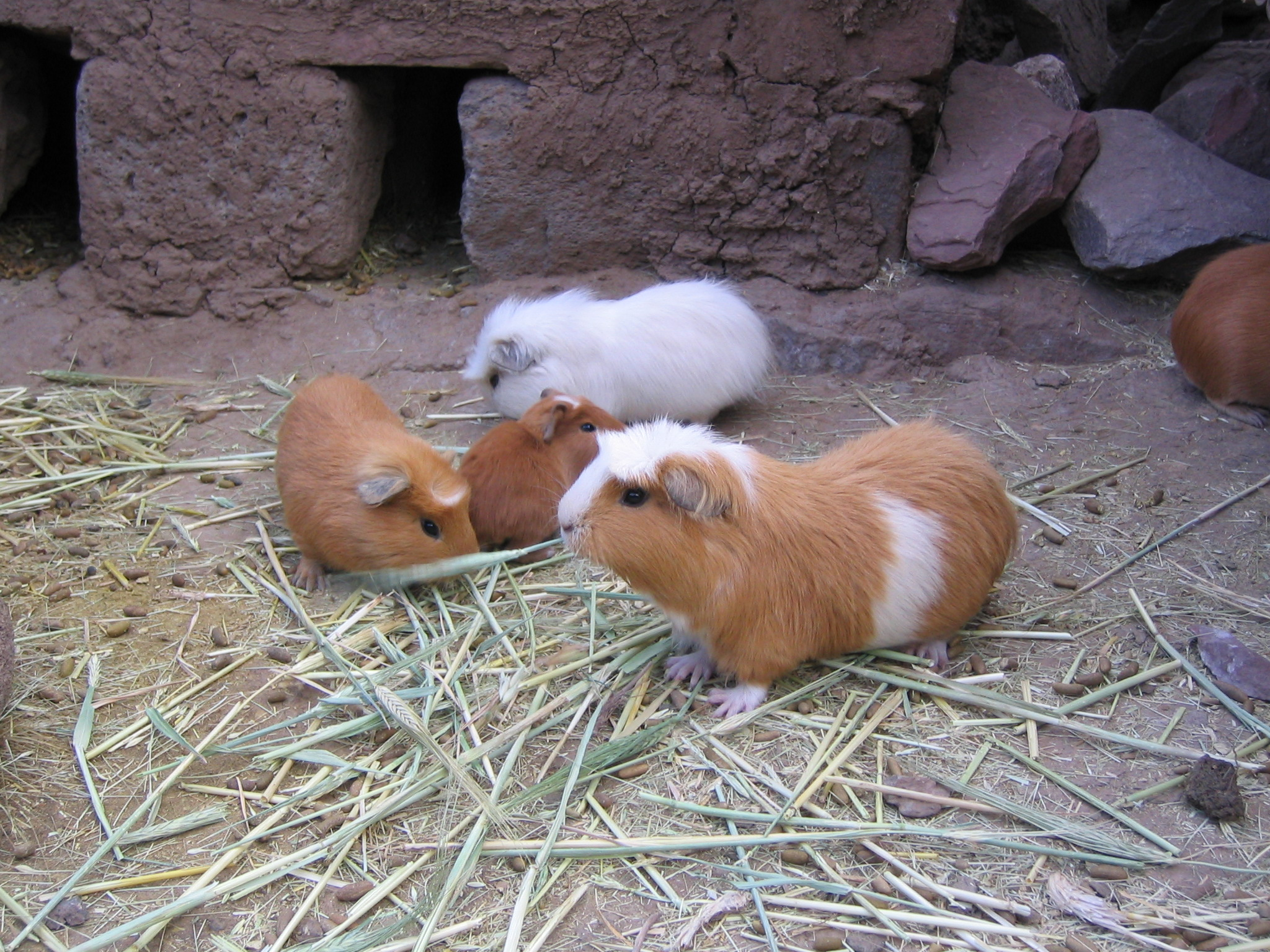 We saw quite a lot of guinea pigs in the Puno area. They're a delicacy all over Peru, but particularly up in the altiplano. This is a farm; they're destined for someone's plate.